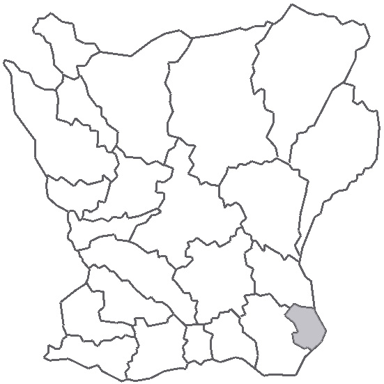 Map describing the location of Järrestad Hundred in the province of Skåne, Sweden.